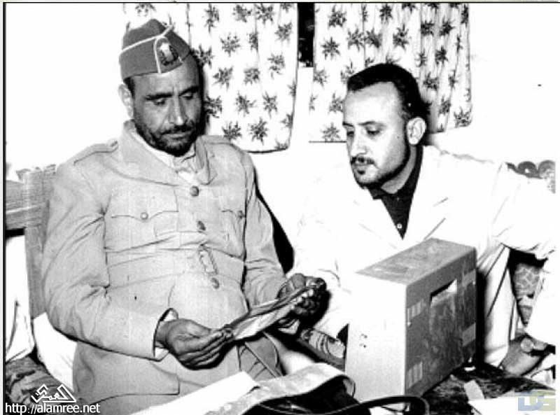 Abdullah al-Sallal and Abd al-Rahman al-Baidhani